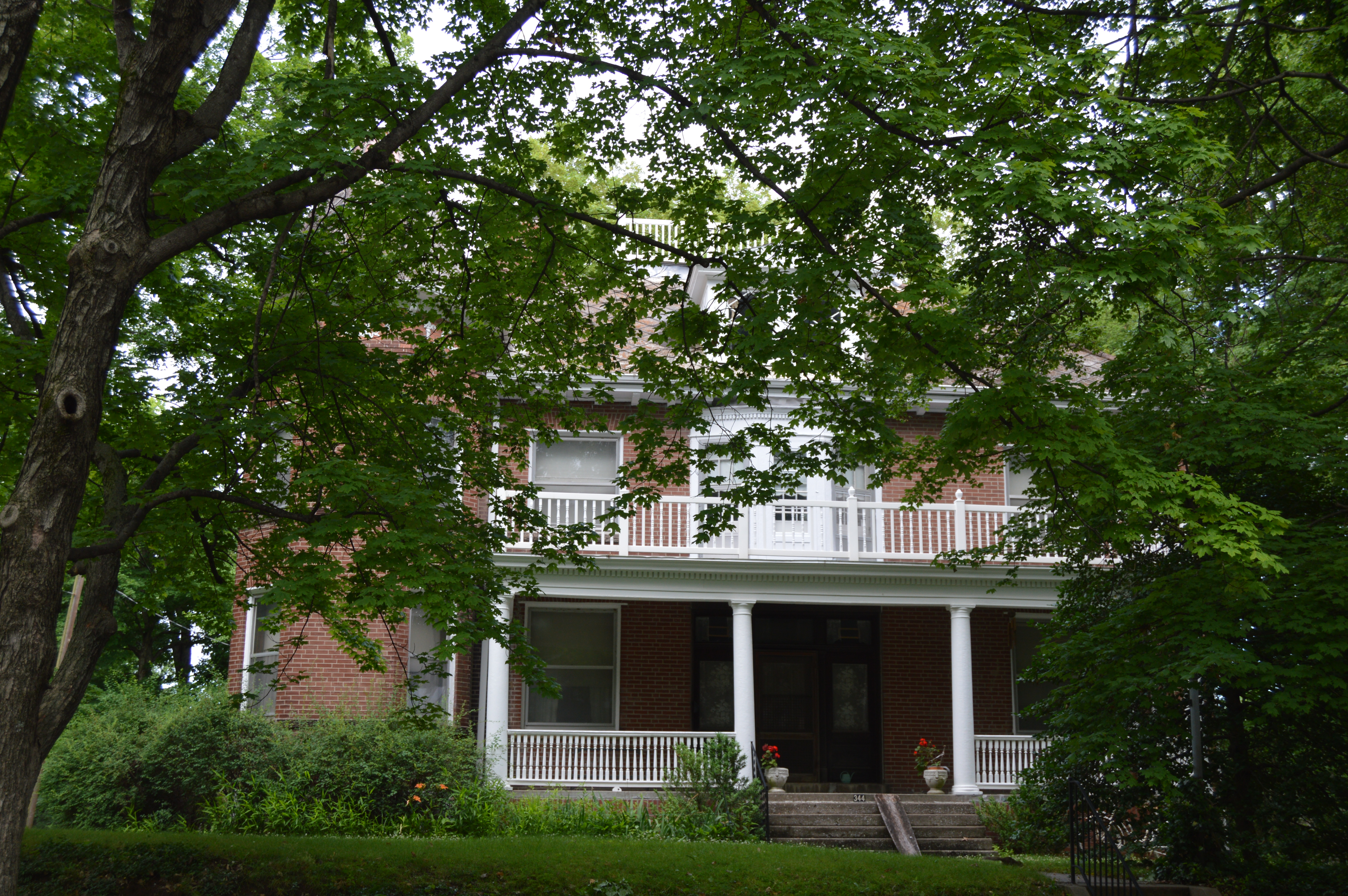 Front of the J. Maple and Grace Senne Wilson House, located at 344 N. Ellis Street in Cape Girardeau, Missouri, United States. Built in 1904, it is listed on the National Register of Historic Places.